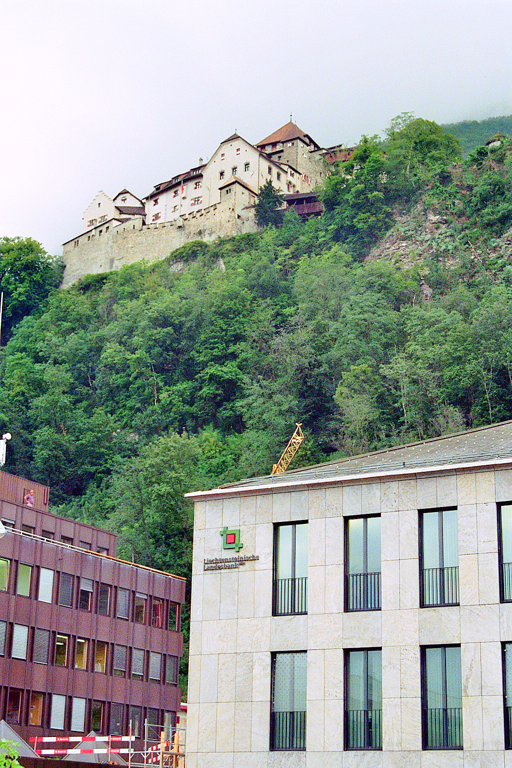 Vaduz in Liechtenstein, regional state bank of Liechtenstein with the castle in the backround